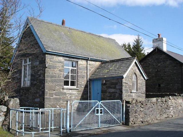 Nebo school The village school in the centre of the village